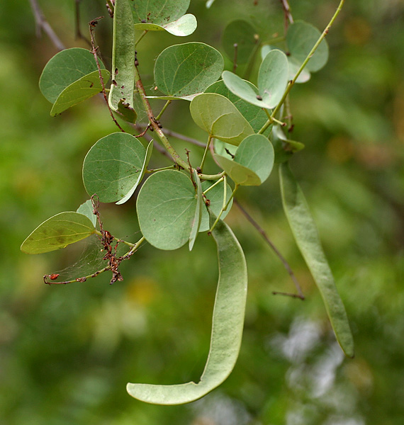 Jhinjheri Bauhinia racemosa in Hyderabad , India.